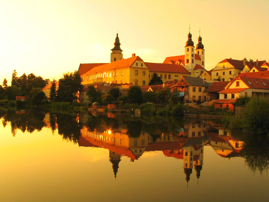 Telč (German: Teltsch), a town in southern Moravia, near Jihlava, in the Czech Republic.